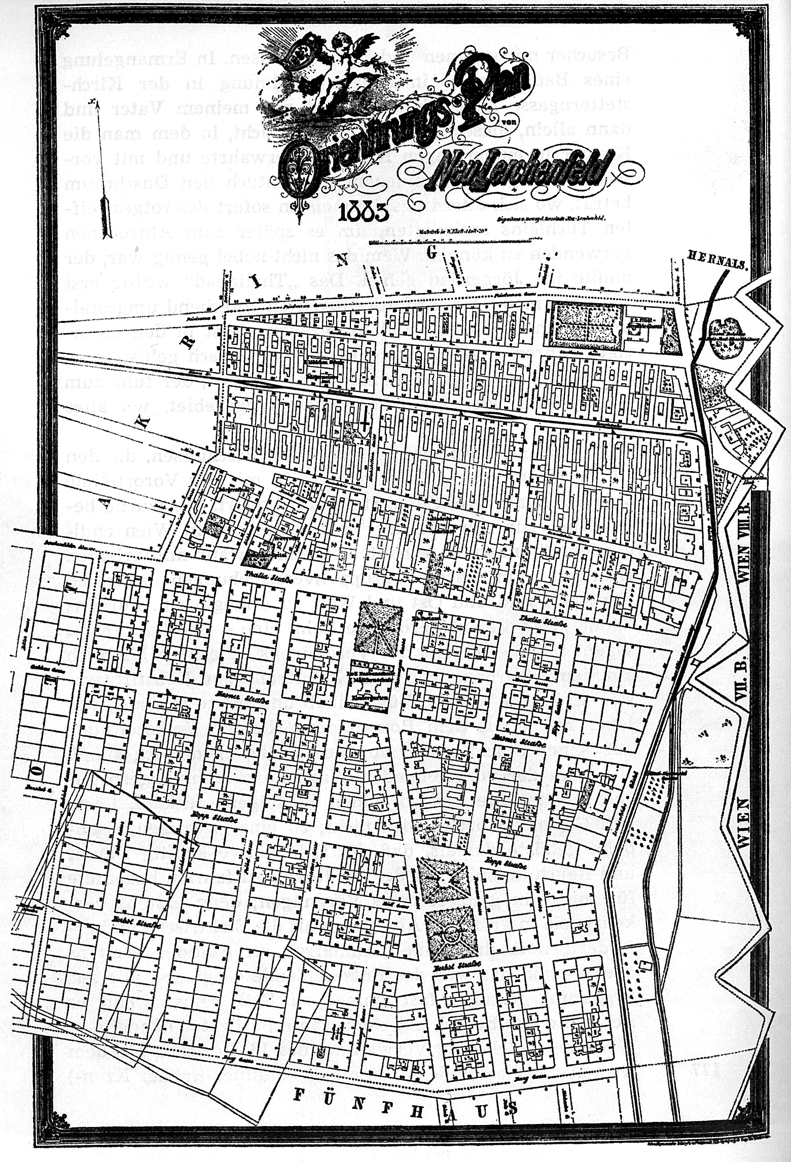 Map of "Neu Lerchenfeld" (Vienna), 1883